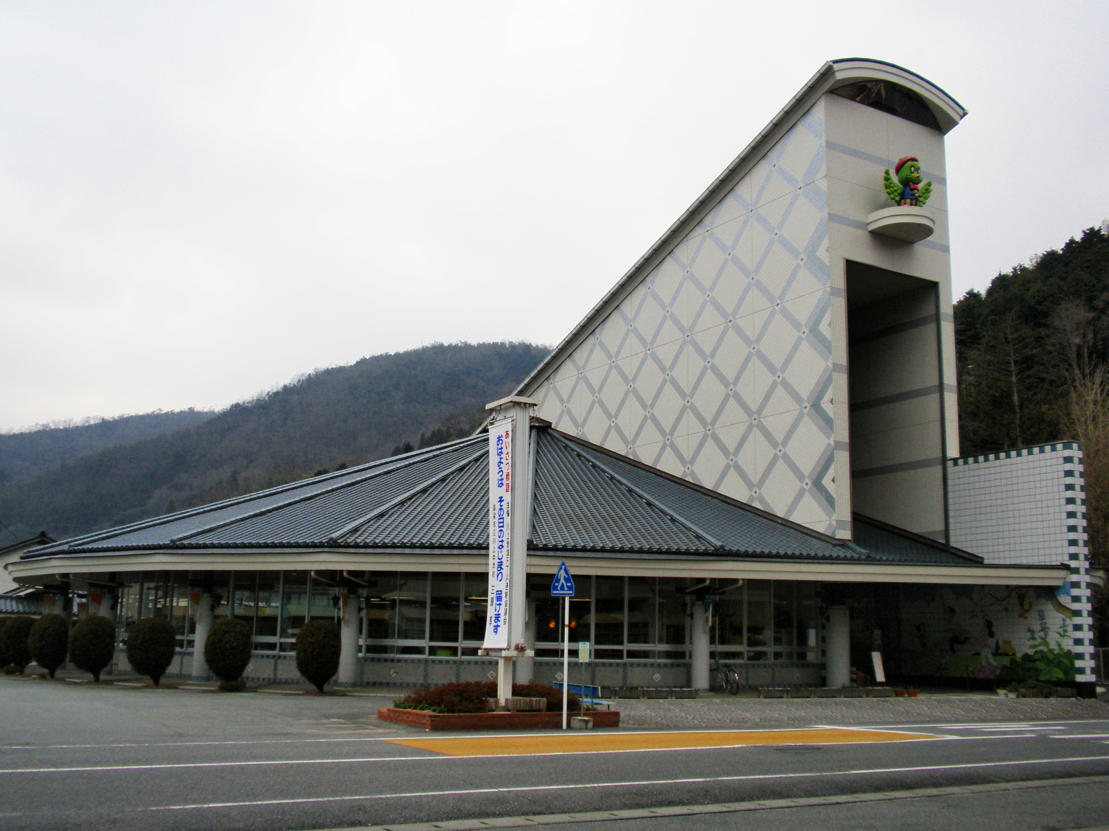 Takahashi city Kibi Kawakami contact comics museum